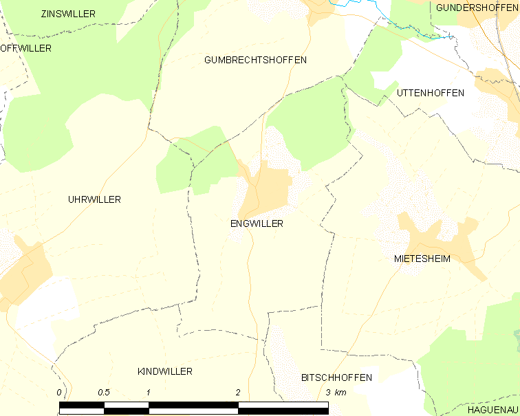 Map of French municipality